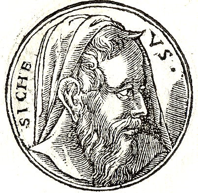 Sichaeus(Acerbas) was rich Phoenician of Tyre. He was uncle and husband of Dido.